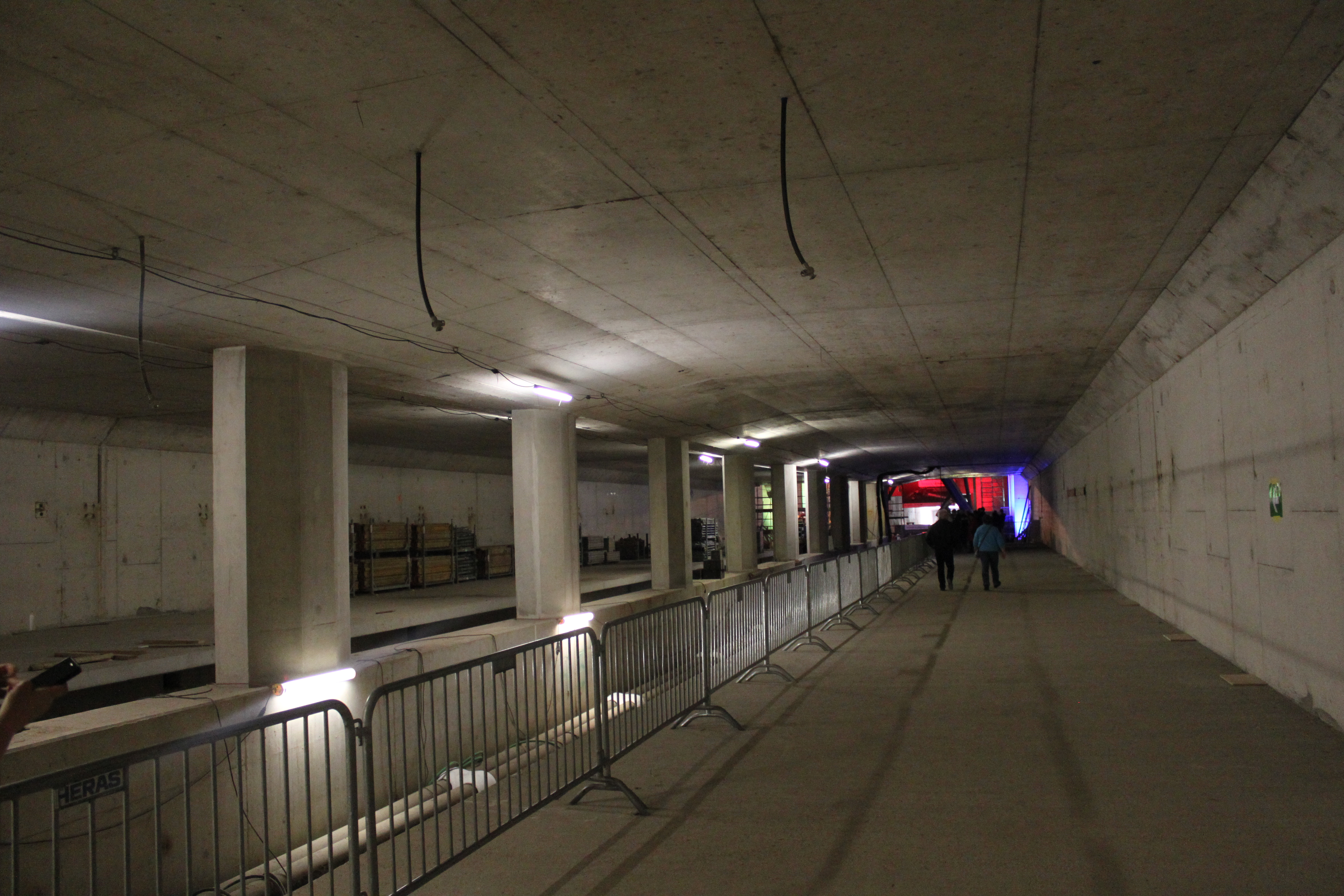 The future metro stop 'Central Station, part of the future North/South metro line, Amsterdam.